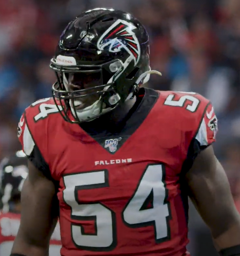 Foyesade Oluokun in 2019